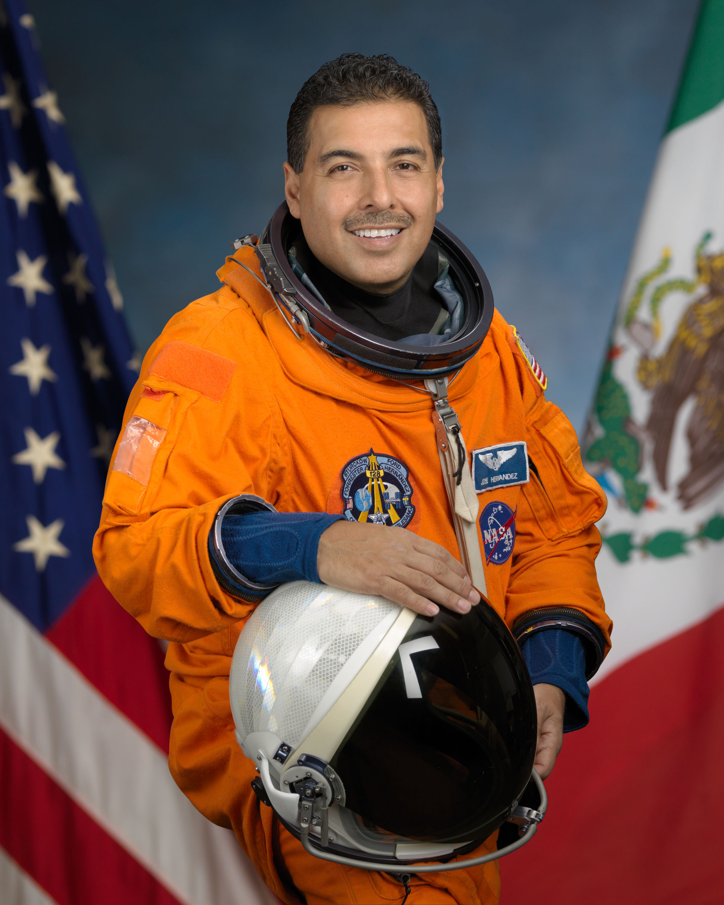 José Hernández